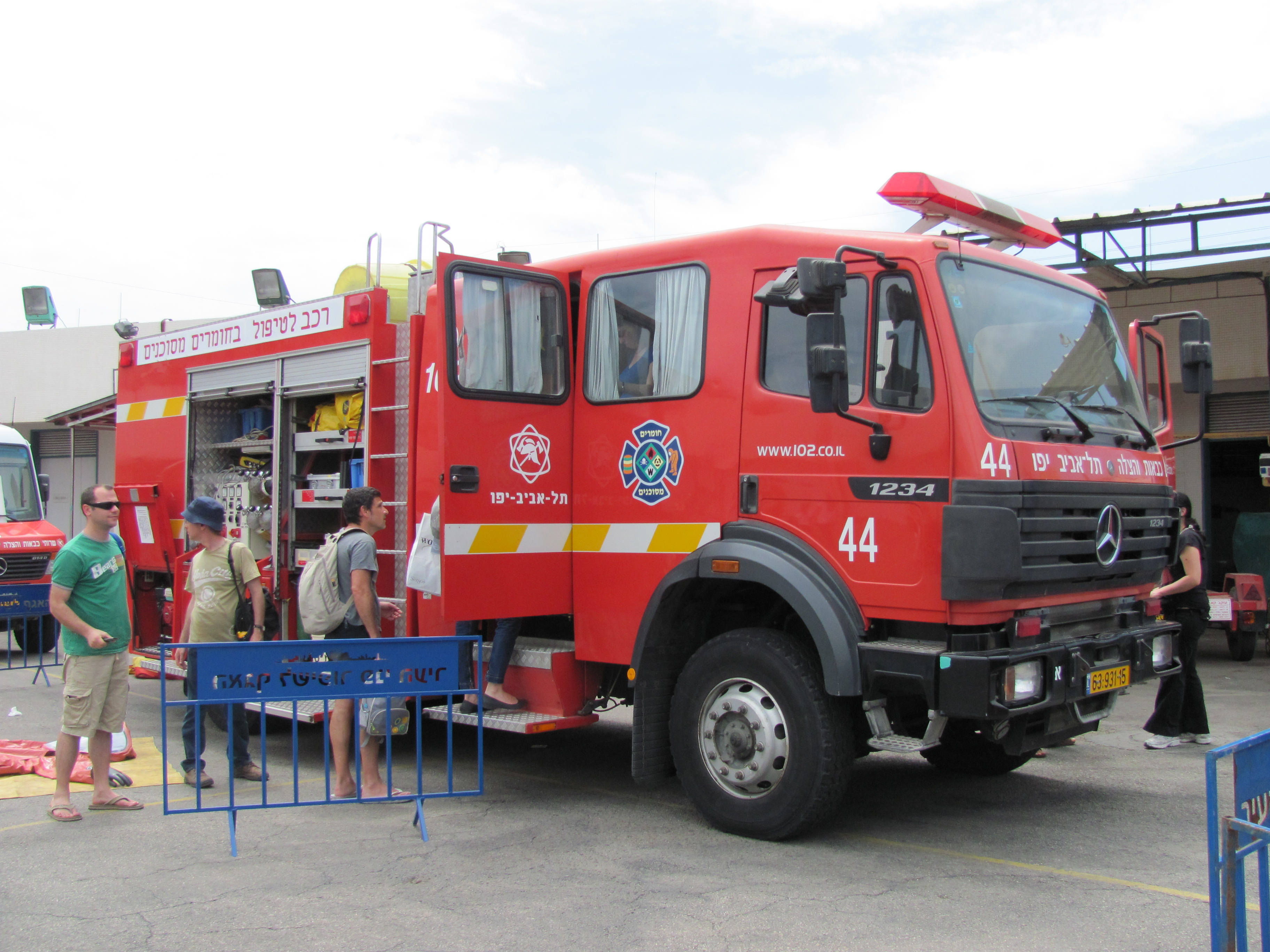 Tel Aviv Fire Department's HAZMAT apparatus.